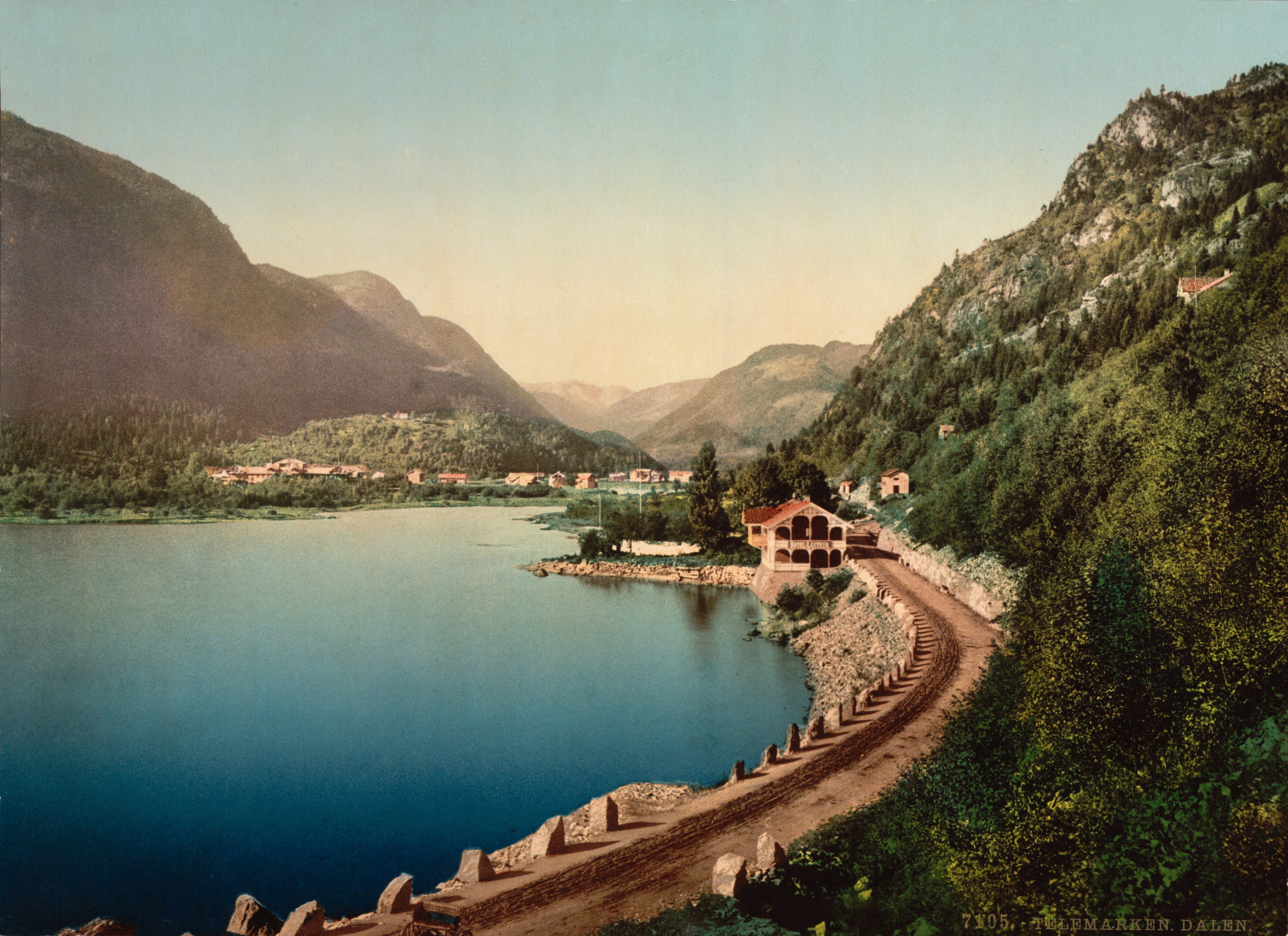 Dalen, Telemark, Norway. 1 photomechanical print : photochrom, color.